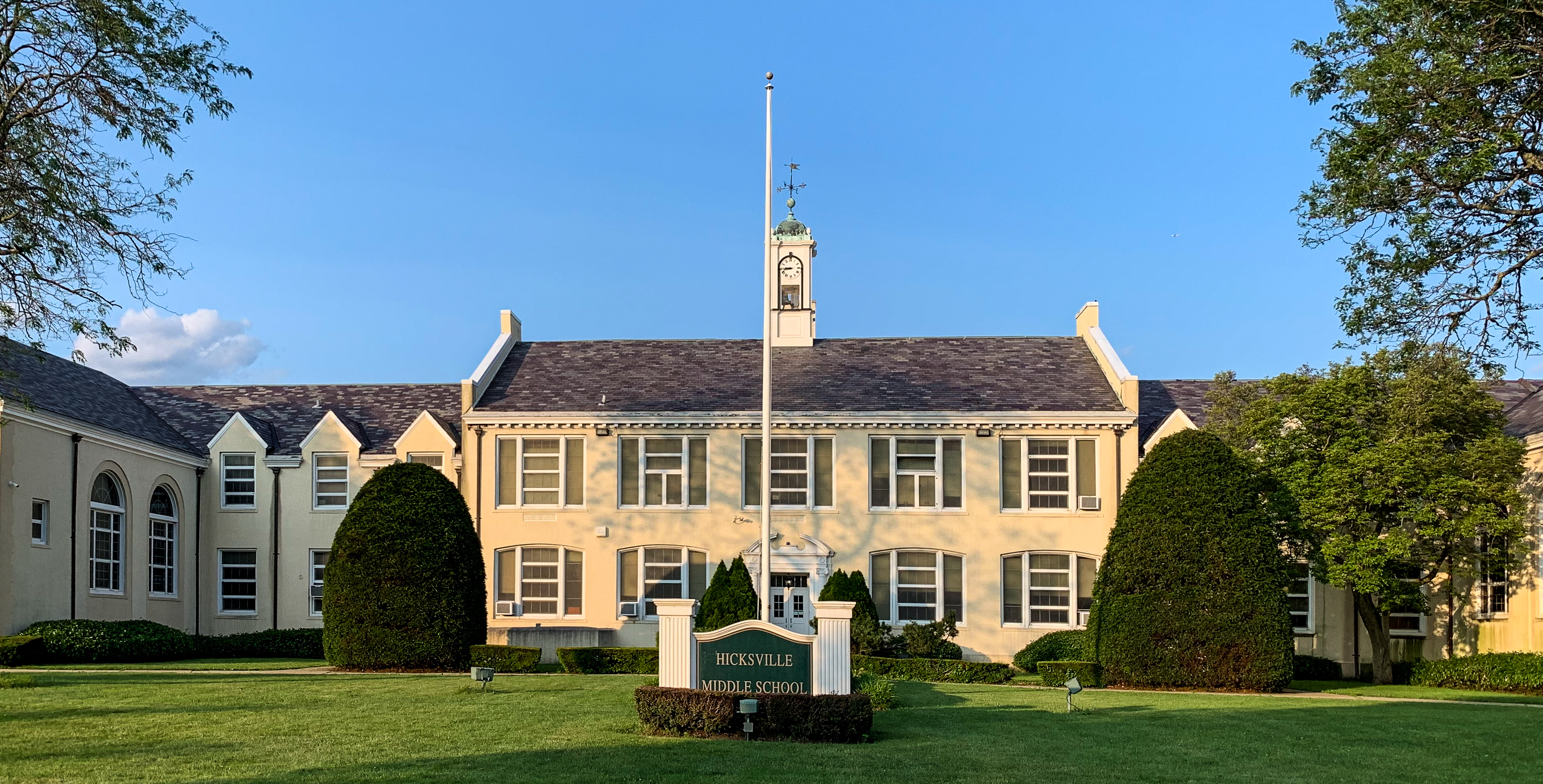 Hicksville Middle School, New York